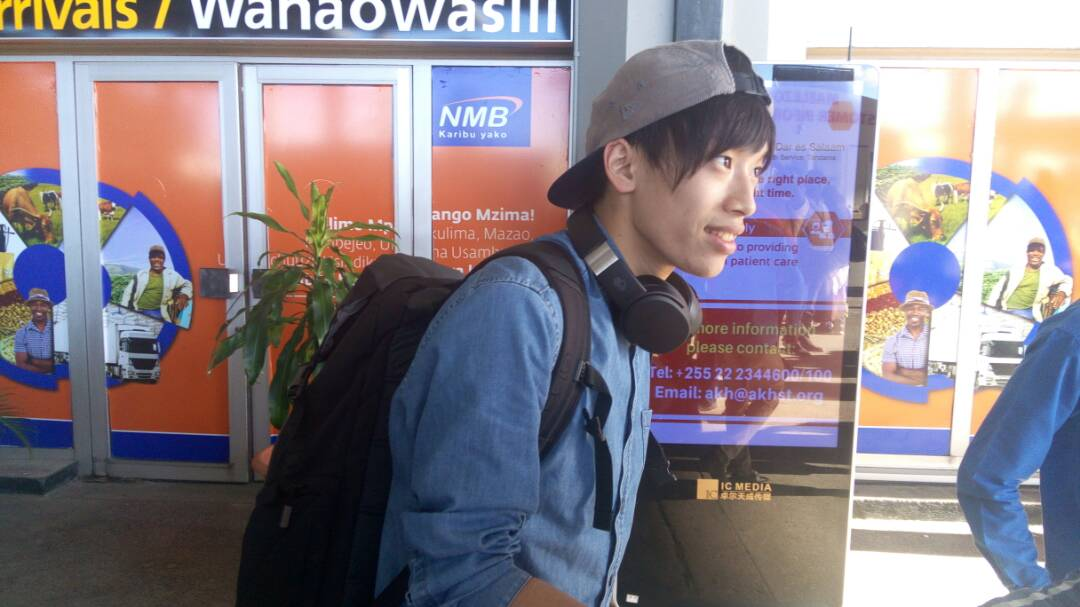 On his arrival in Tanzania, this was his 1st time to be in Tanzania